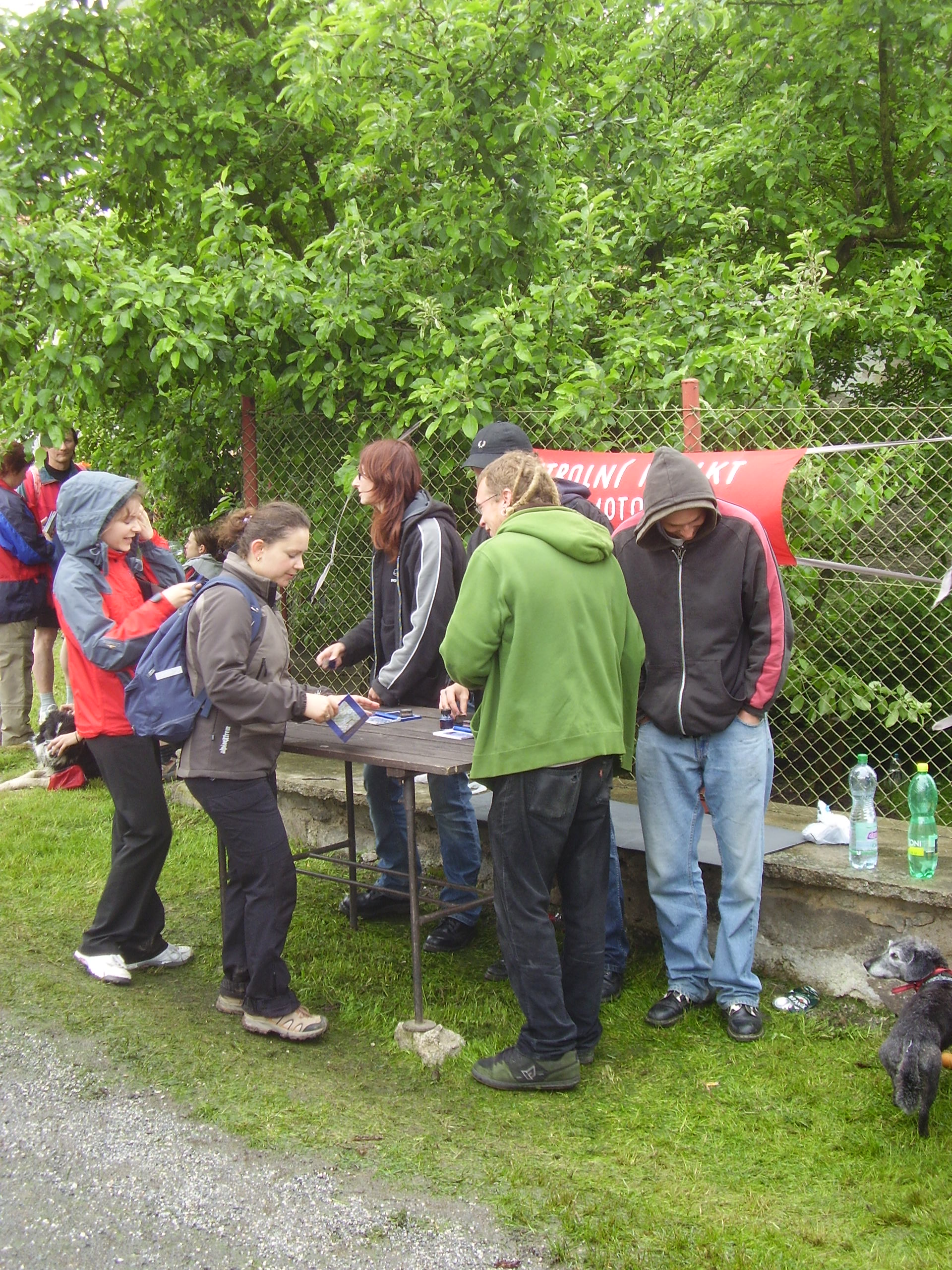 People waiting for stamps, punkt Vojkov, Pochod Praha – Prčice